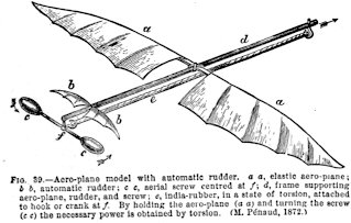 Adolphe Pénaud's Planophore of 1871 was a rubber band driven aircraft model, which once flew 181 feet in 11 seconds.